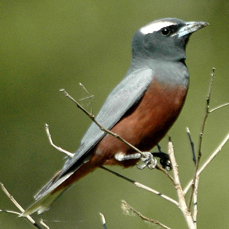 White-browed Woodswallow (Artamus superciliosus) Samsonvale Cemetery, SE Queensland, Australia